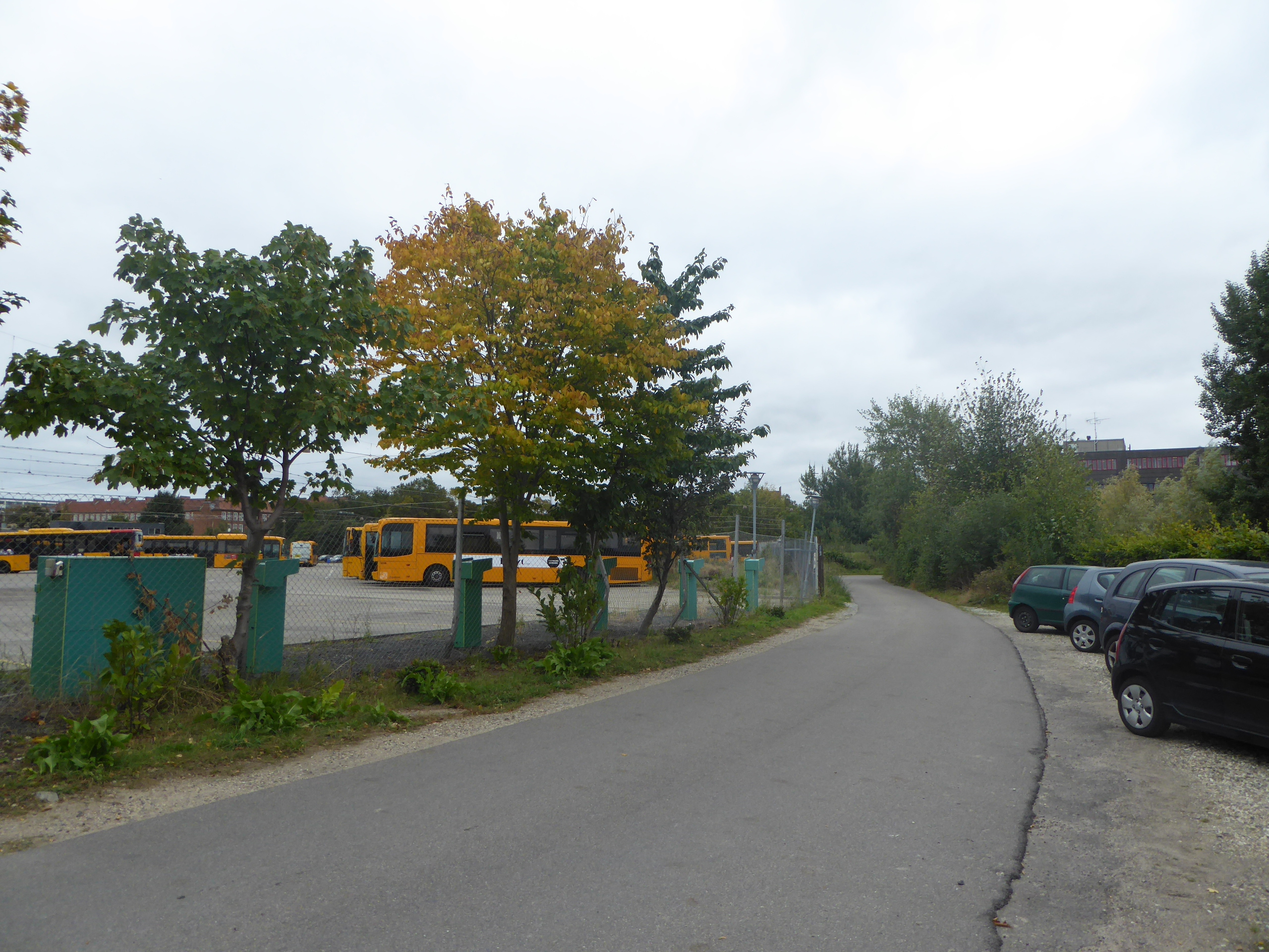 The street Borgervænget in Østerbro in Copenhagen. At the left the bus garage Ryvang of Arriva Danmark.